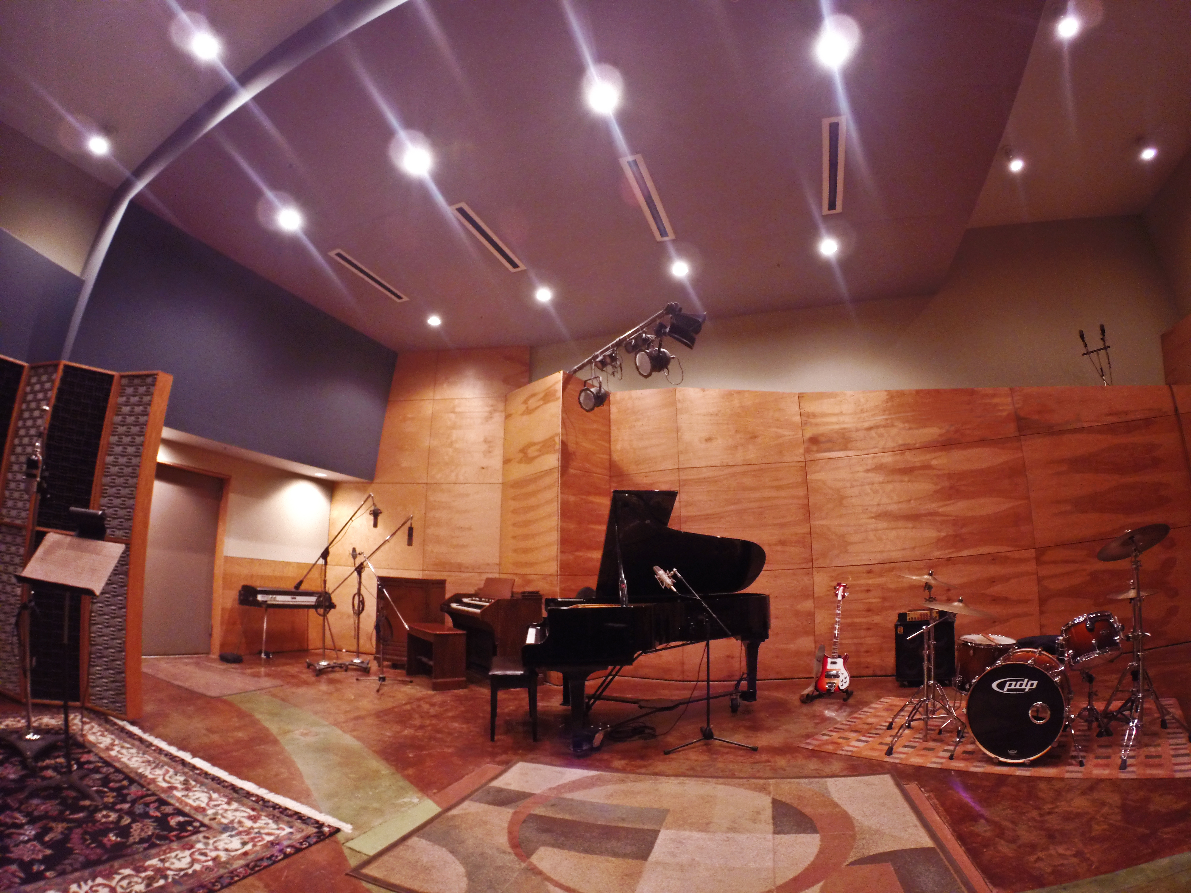 In Your Ear Studios | Richmond, VA